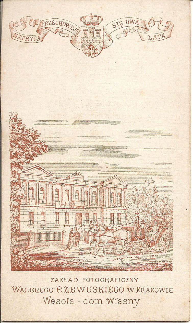 Reverse of photograph 'Young Lady in Kraków' taken at the studio of Walery Rzewuski, Wesoła - dom Własny, in Kraków.The Scotch Mist Gallery contains photographs of historic buildings, monuments, memorials and people of Poland.